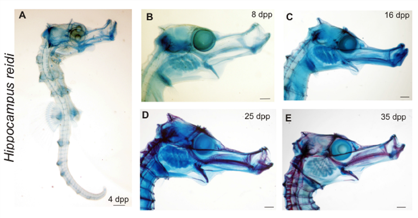 Hippocampus reidi at 4 to 35 dpp. Ossification is first visible at 16 dpp and the skull is heavily ossified by 35 dpp. Scale bars: A, B= 200 μm; C-E= 300μm